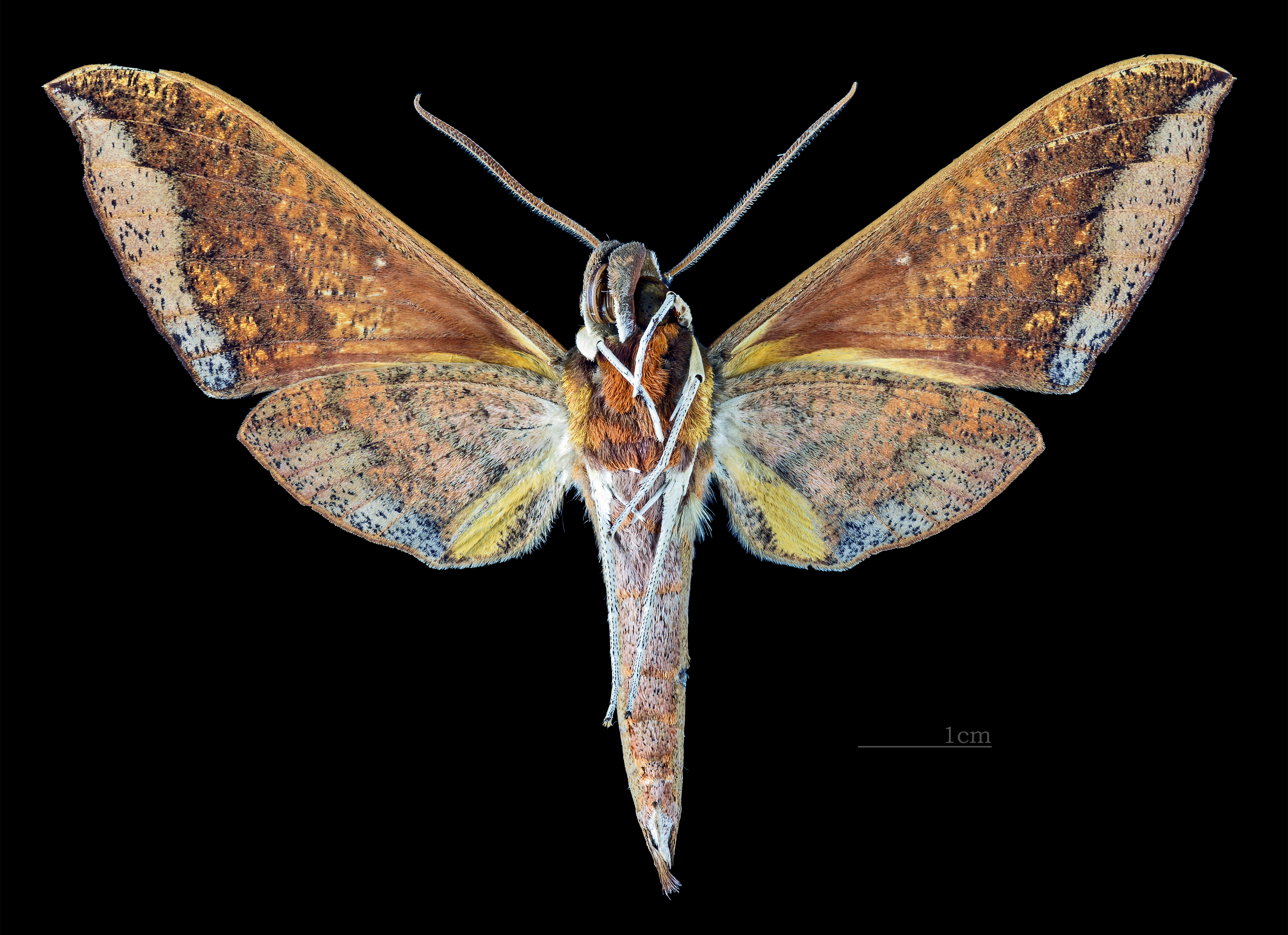 Gnathothlibus meeki - △ Ventral side Collection of the Mathematician Laurent Schwartz